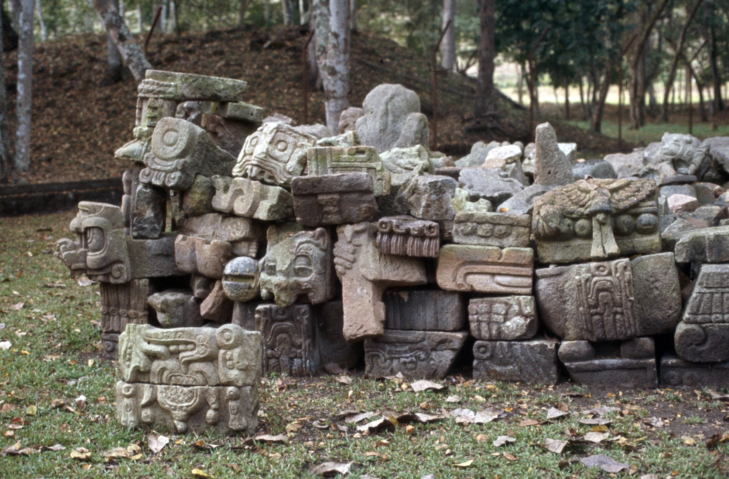 Copán in Honduras